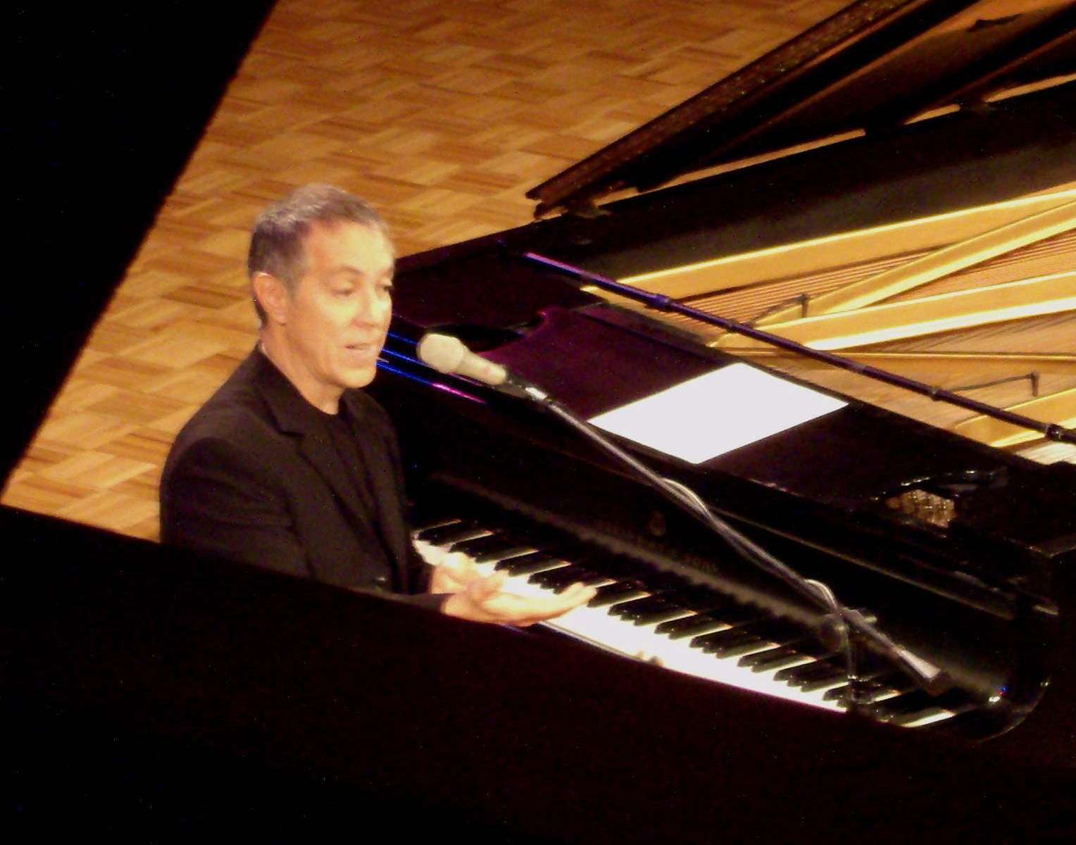 Taken from Image:Fernando Ortega.JPG